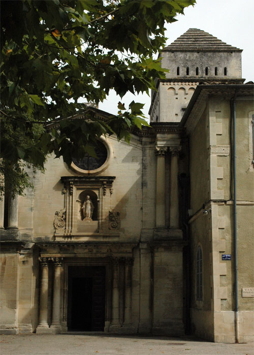 Monastery of Saint-Paul-de-Mausole. Saint Rémy, France